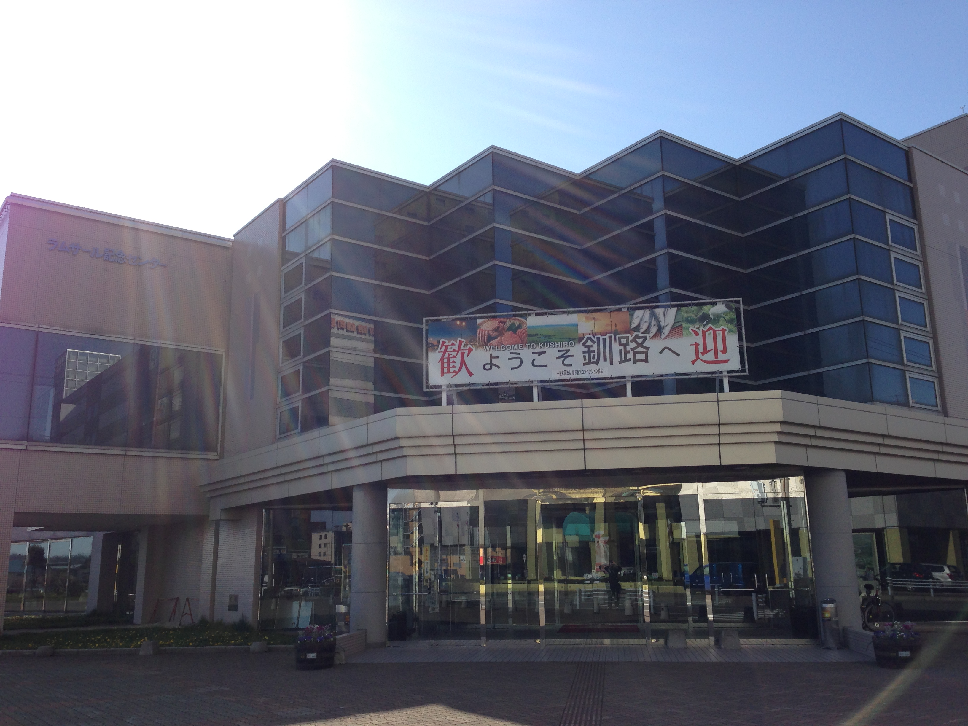 Kushiro Tourism and International Relations Center (Ramsar Memorial Center)